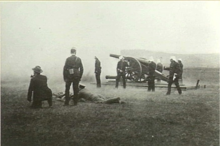 AWM caption : "TASMANIA, 1902. FIRING THE 40 POUNDER ARMSTRONG B. L. SIEGE GUN AT ROSS. FOREGROUND - STANDING, MAJOR G. E. HARRAP, CO; CAPTAIN F. HERITAGE (LATER BRIGADIER). LAUNCESTON VOLUNTEER ARTILLERY."